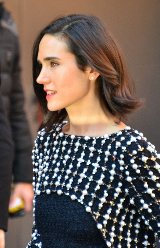 Aloft photo call during 2014 Berlinale International Film Festival held at the Grand Hyatt Hotel on Wednesday (February 12) in Berlin, Germany. Jennifer Connelly, Cillian Murphy & Melanie Laurent Promote 'Aloft' in Berlin